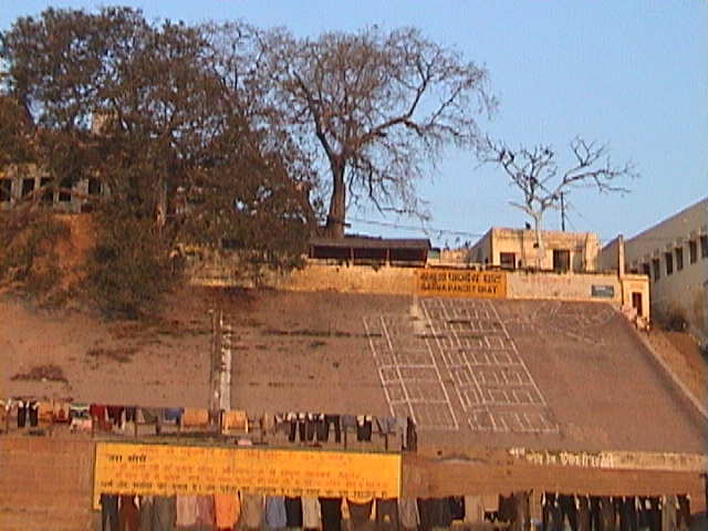 See Varanasi Development Cooperation Handbook/Stories/Responsible Development - Varanasi The Varanasi Heritage Dossier Kautilya Society Play media Vrinda Dar - How we got involved in heritage protection of Varanasi